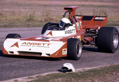 Garrie Cooper in his Elfin MR5 at Surfers Paradise International Raceway for the Glynn Scott Memorial Trophy, a round of the 1972 Gold Star Series - Photo by Graham Ruckert